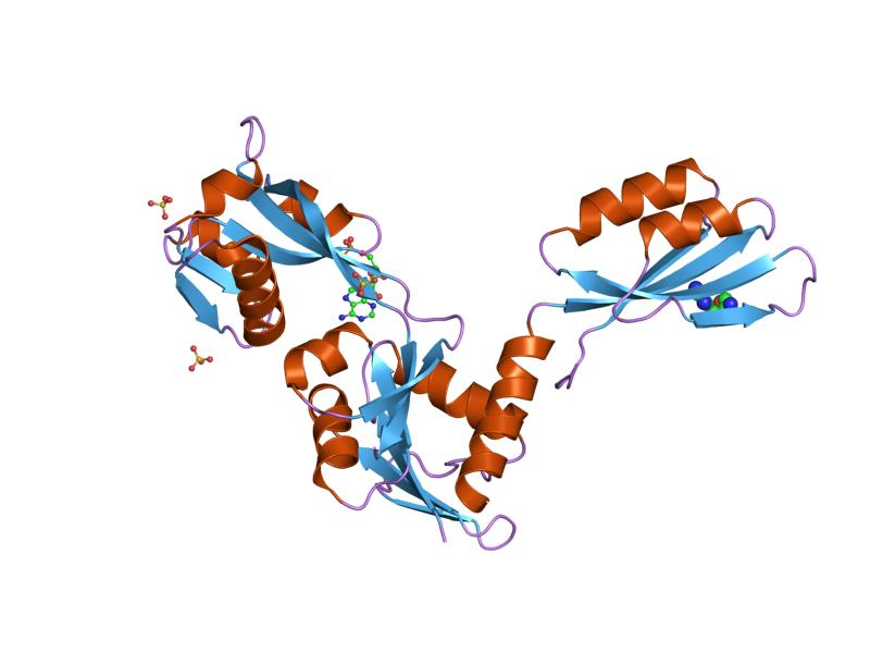 Cartoon representation of the molecular structure of protein registered with 1nh8 code.